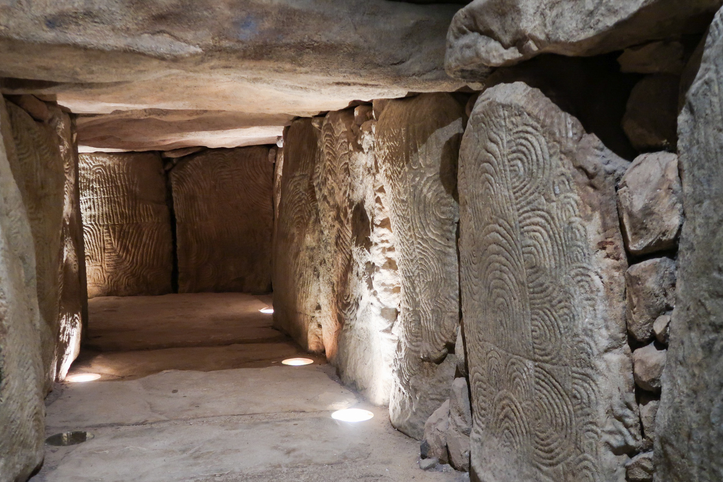 Gavrinis passage. Replica in the "Musée des tumulus de Bougon" (Deux-Sèvres), France.